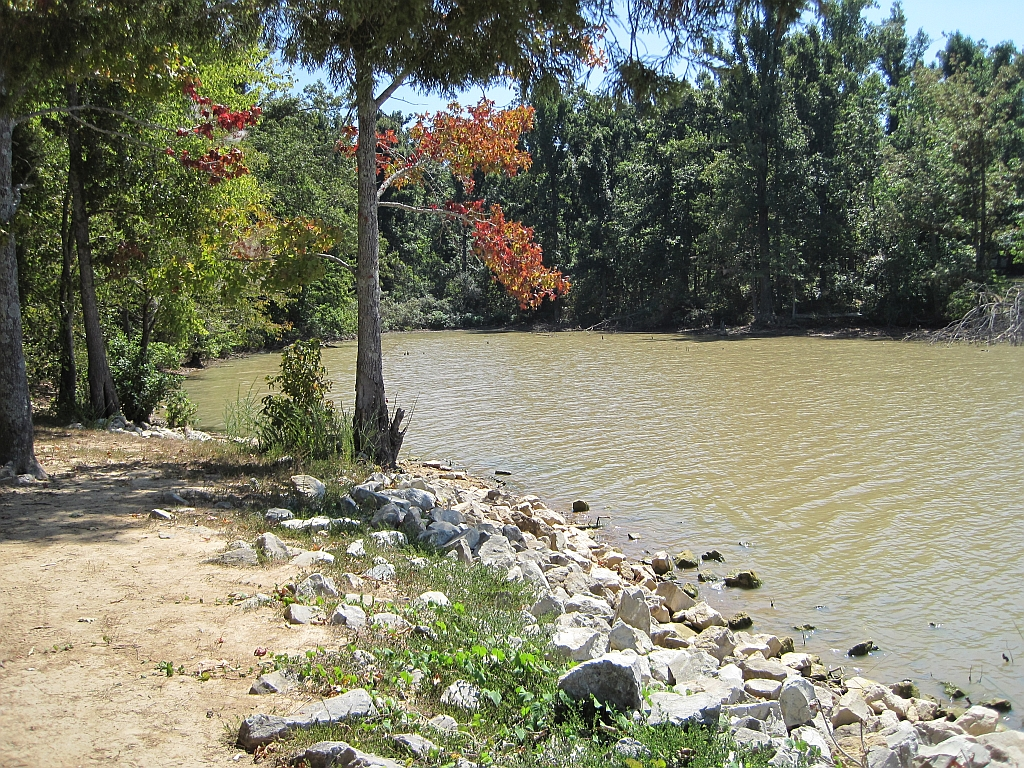 Lake Frierson State Park south of Paragould, Arkansas. Lake Frierson